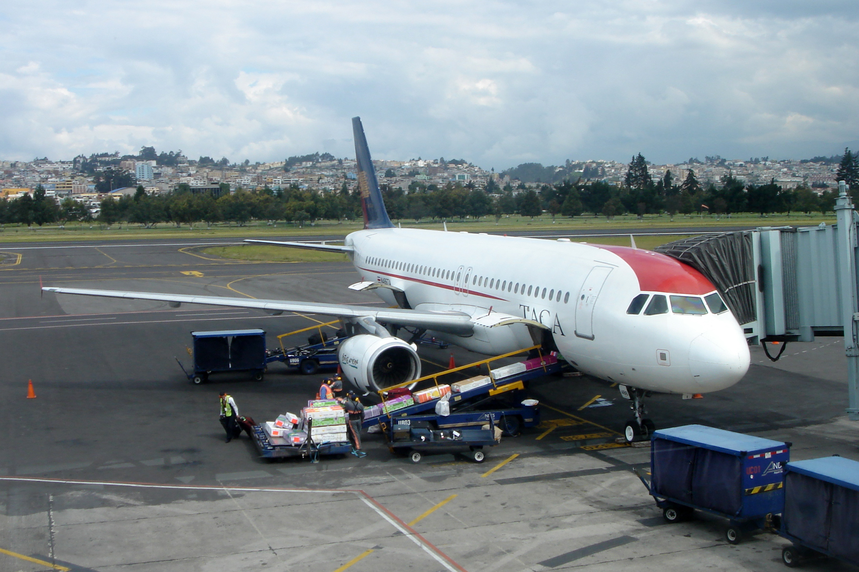 Grupo TACA Airbus operated by LACSA (Costa Rican flag/registered) at Mariscal Sucre International Airport (UIO), Quito, Ecuador